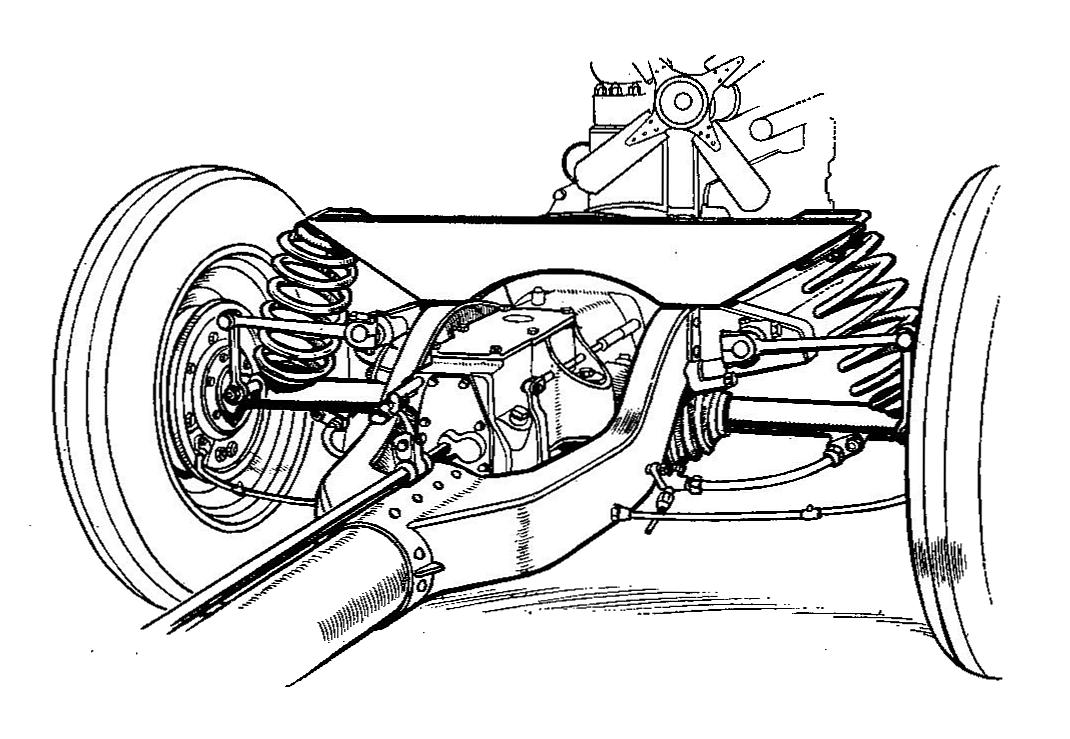 Mercedes 130H rear axle (Autocar Handbook, 13th ed, 1935).jpg